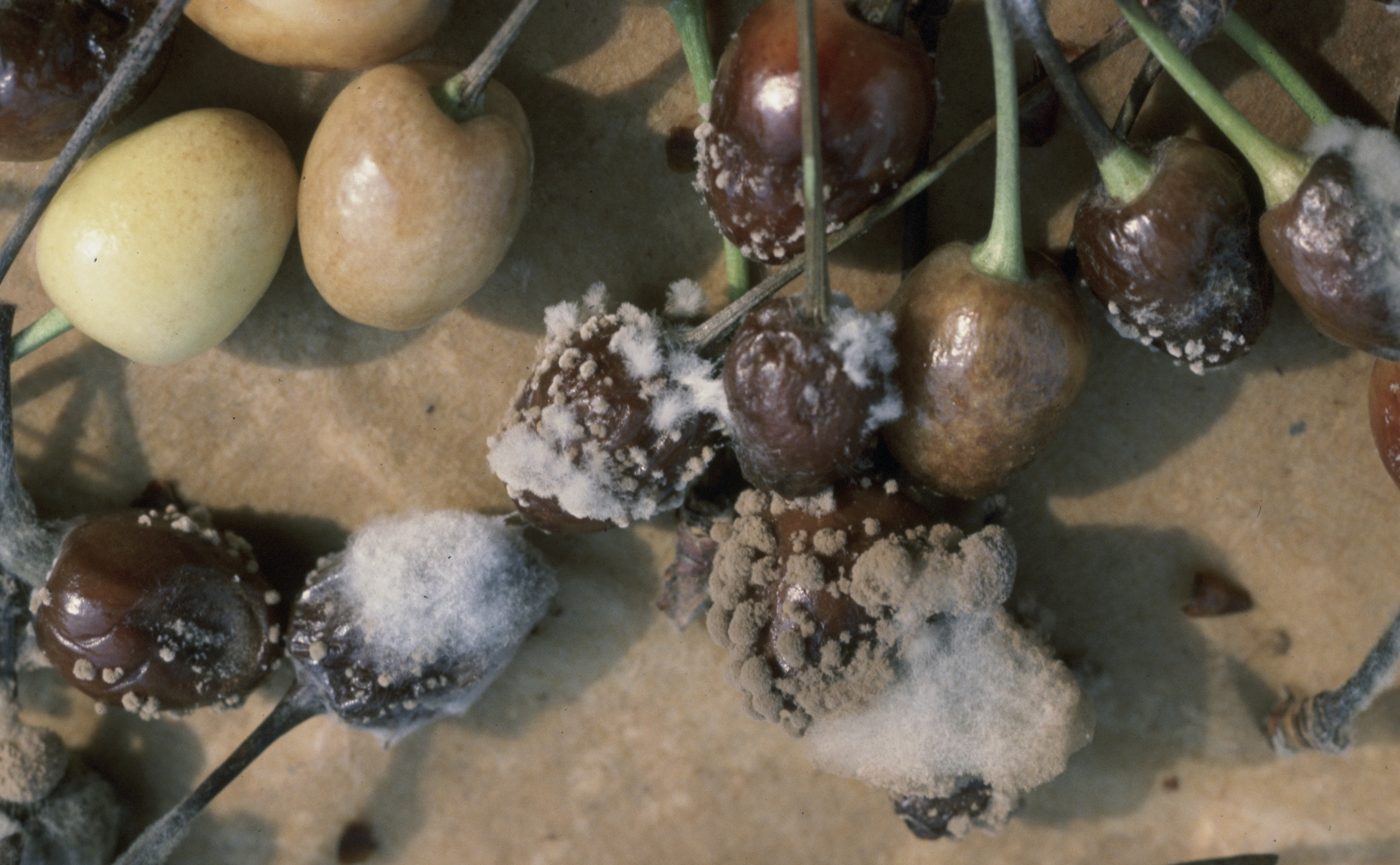 Symptoms of brown rot caused by Monilinia fructicola on cherries. Image citation: Mary Ann Hansen, Virginia Polytechnic Institute and State University